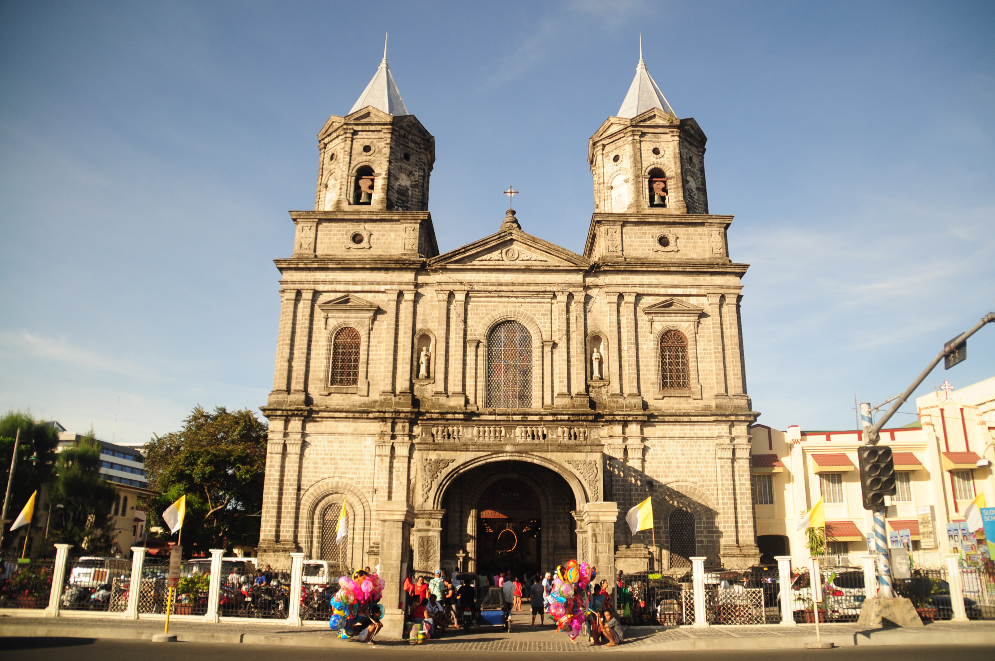 Holy Angels Parish Church, Angeles, Pampanga